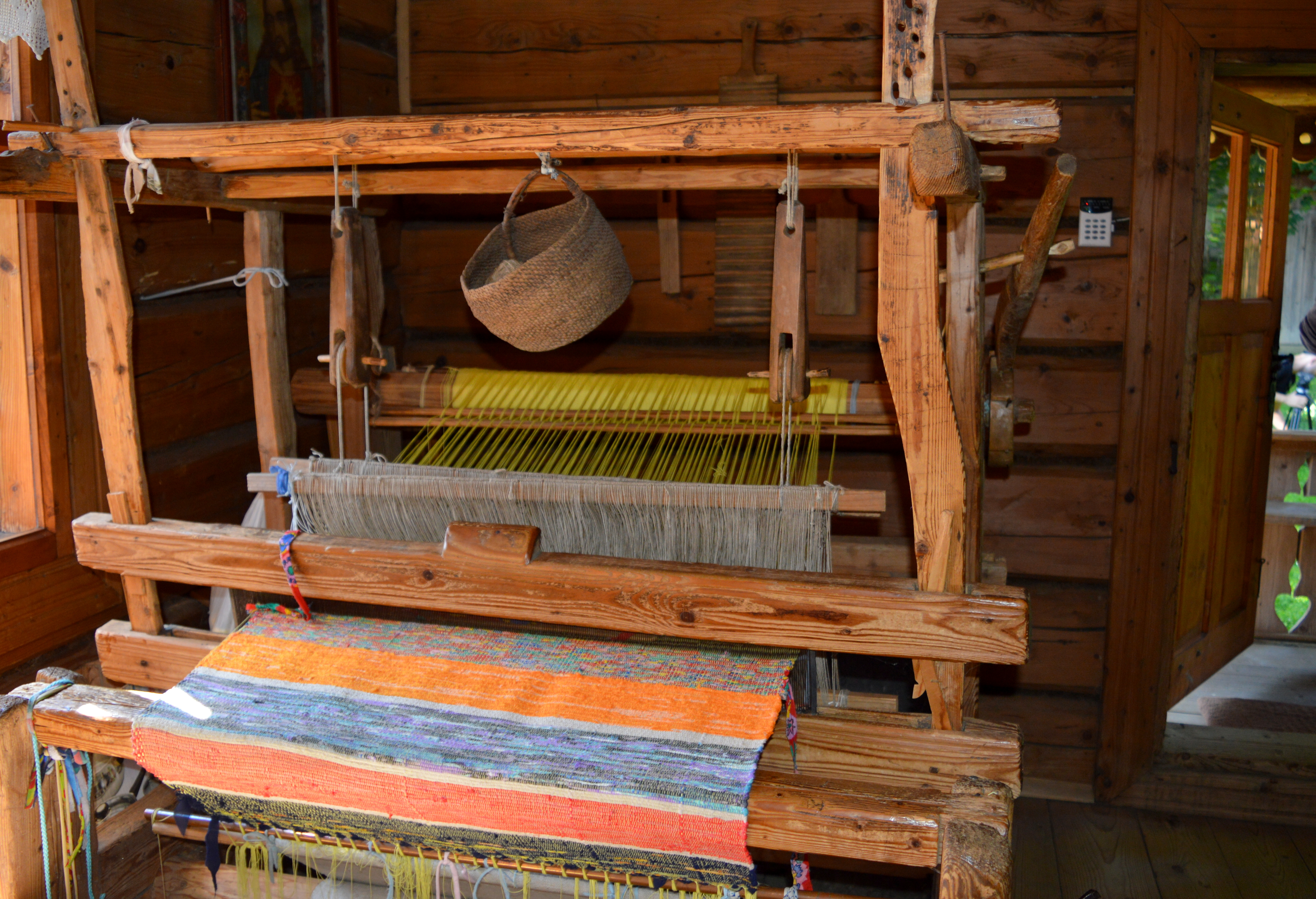 The Korkosz Croft in Czarna Góra